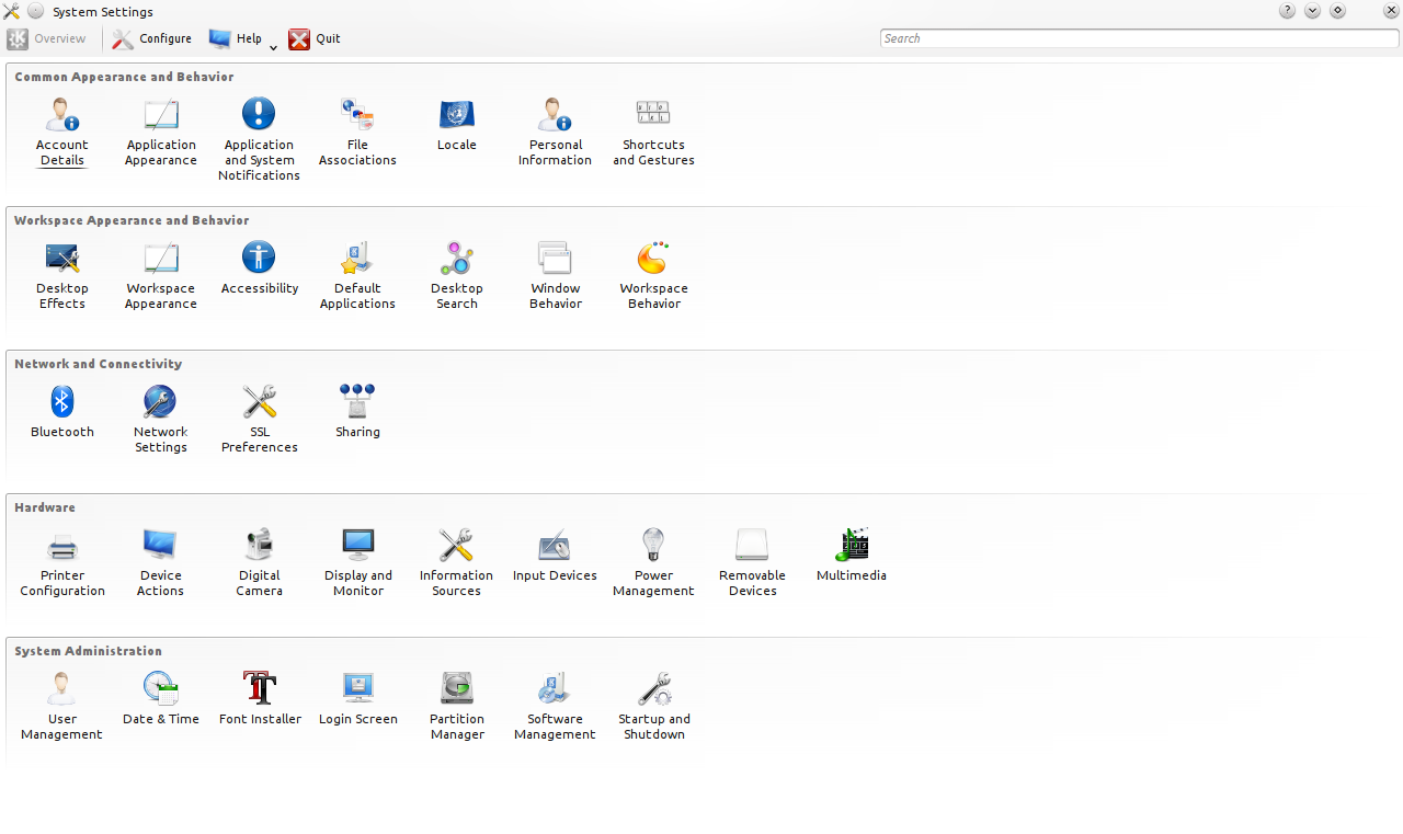 Kubuntu administration